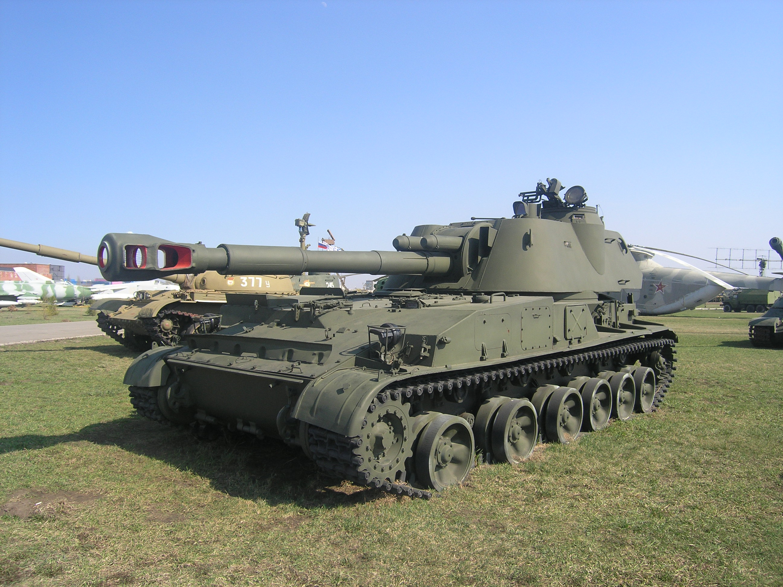 152-mm self-propelled howitzer 2S3 «Akatsiya» in Techical museum Togliatti